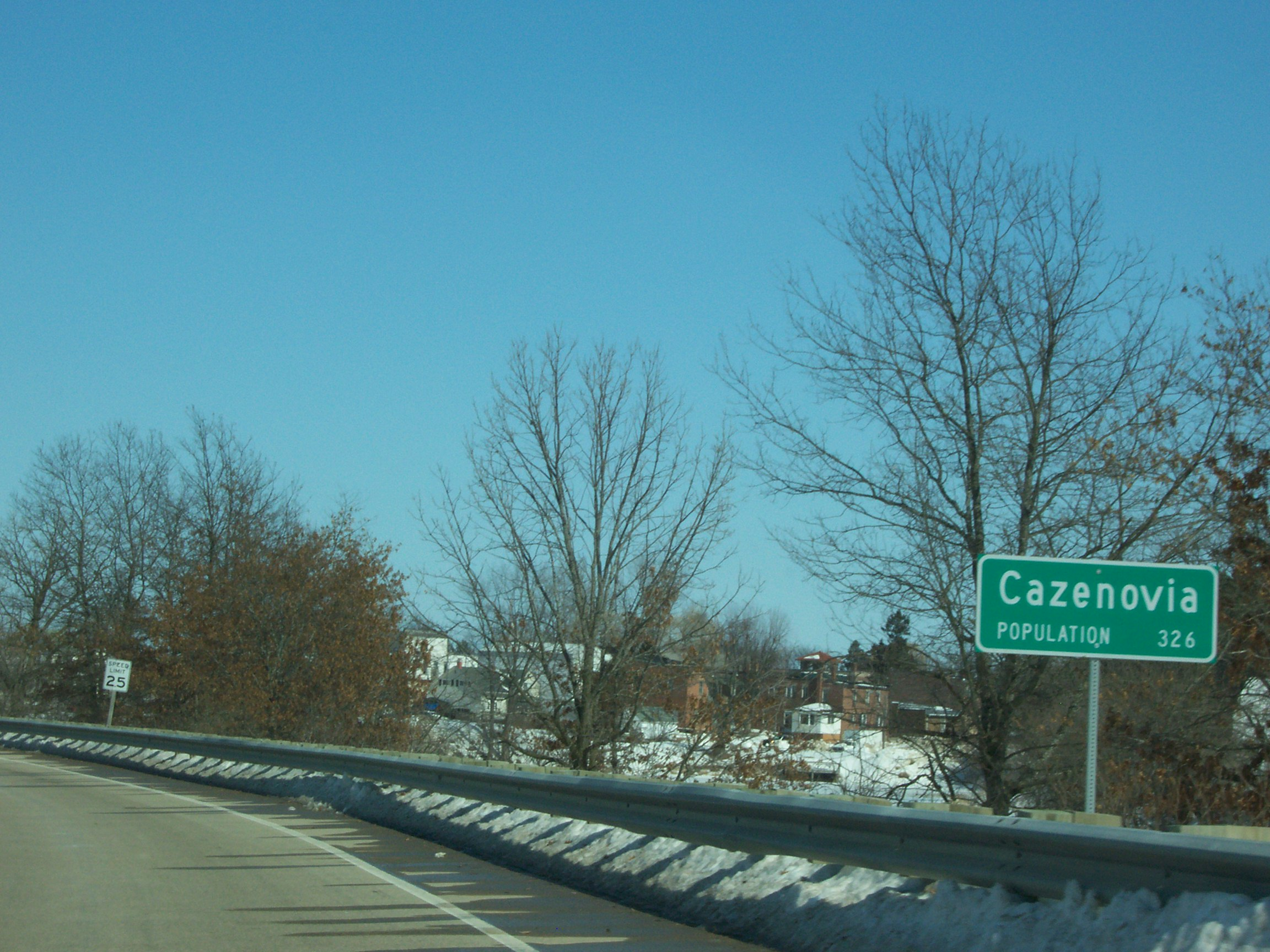 Looking north at the sign for Cazenovia, Wisconsin, USA while travelling on Wisconsin Highway 58. Taken March 11, 2007 by myself.